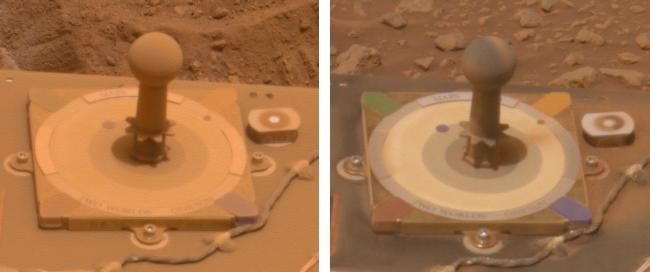 Original Caption Released with Image: These two images from 10 days apart show that dust was removed from the panoramic camera's calibration target on NASA's Mars Exploration Rover Spirit. Spirit's panoramic camera took the picture on the left on the rover's 416th martian day, or sol, (March 5, 2005) and took the picture on the right on sol 426 (March 15, 2005). During the time in-between, other evidence of dust-lifting winds were a jump in power output by Spirit's solar arrays on sol 420 from removal of some accumulated dust, and sighting of two dust devils in sol 421 images from Spirit. The size of the base plate on the calibration target shown in both of these images is 8 centimeters (3.15 inches) on each side. These are the panoramic camera team's best current attempt at generating "true color" views of what these scenes would look like if viewed by a human on Mars. They were generated from mathematical combinations of six calibrated, left-eye Pancam images for each sequence, using filters ranging from 430-nanometer to 750-nanometer wavelengths.